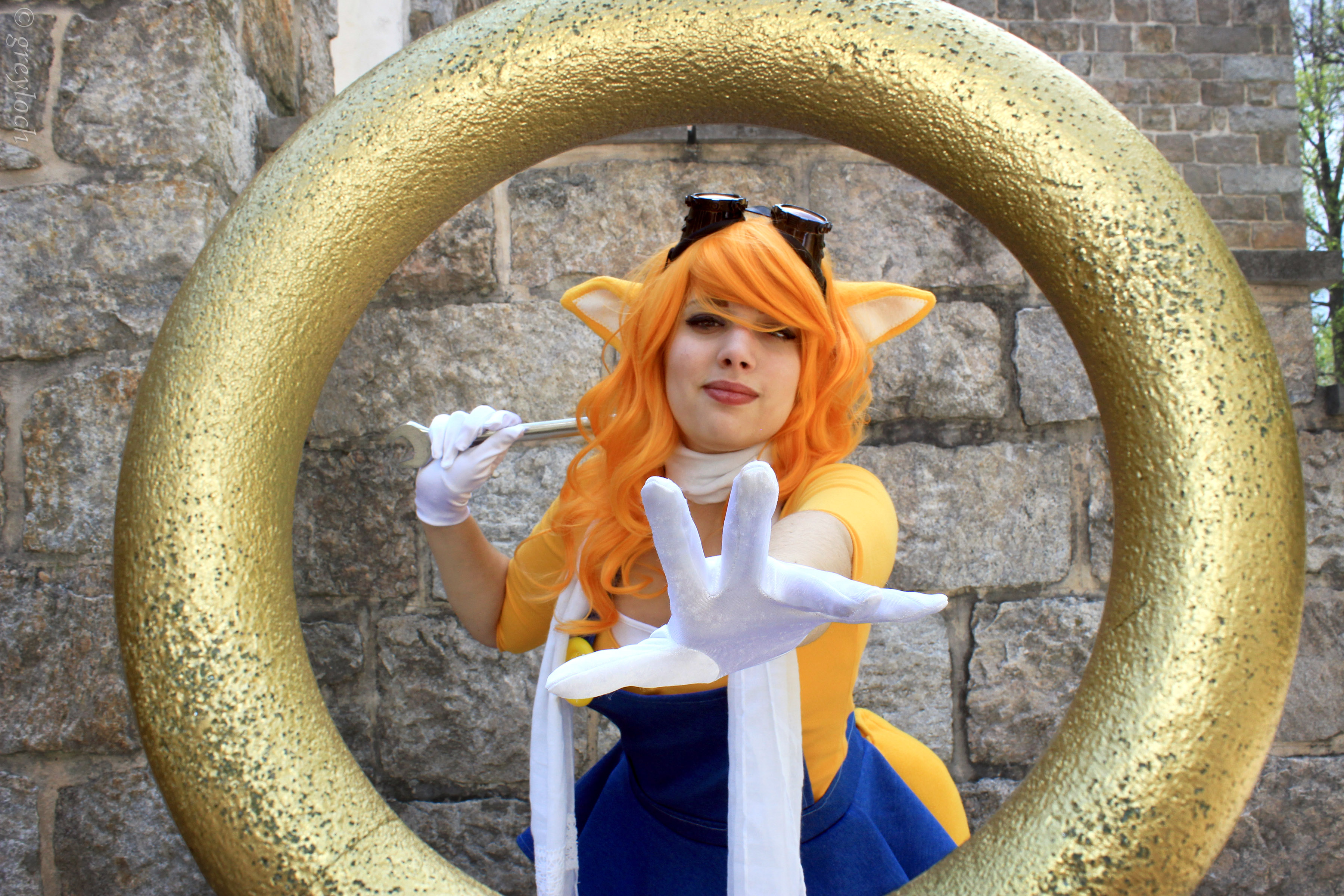 A Gijinka (humanized) Rule 63 version of "Tails" from the video game Sonic the Hedgehog. Cosplayer: [ Avalon Cosplay]